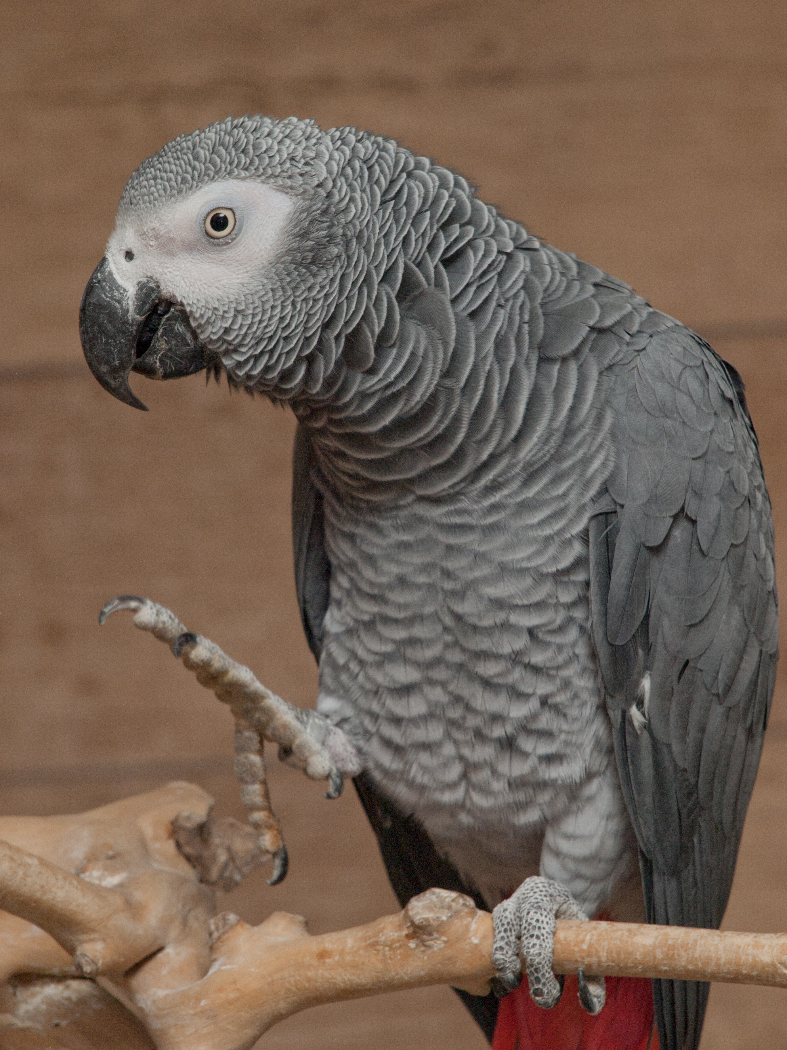 African grey parrot male pet named John